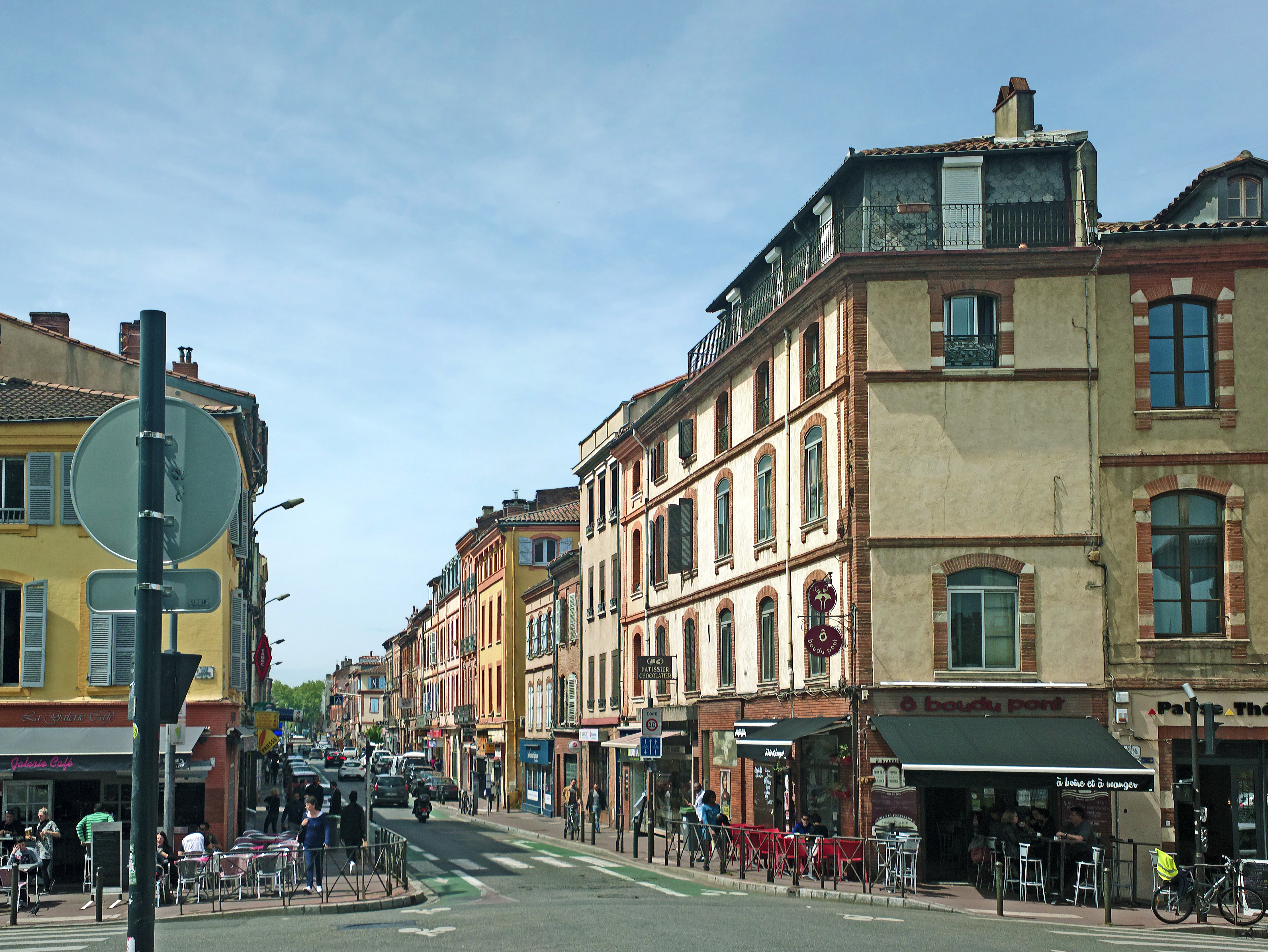 Rue de la République in Toulouse. Full view, from the beginning